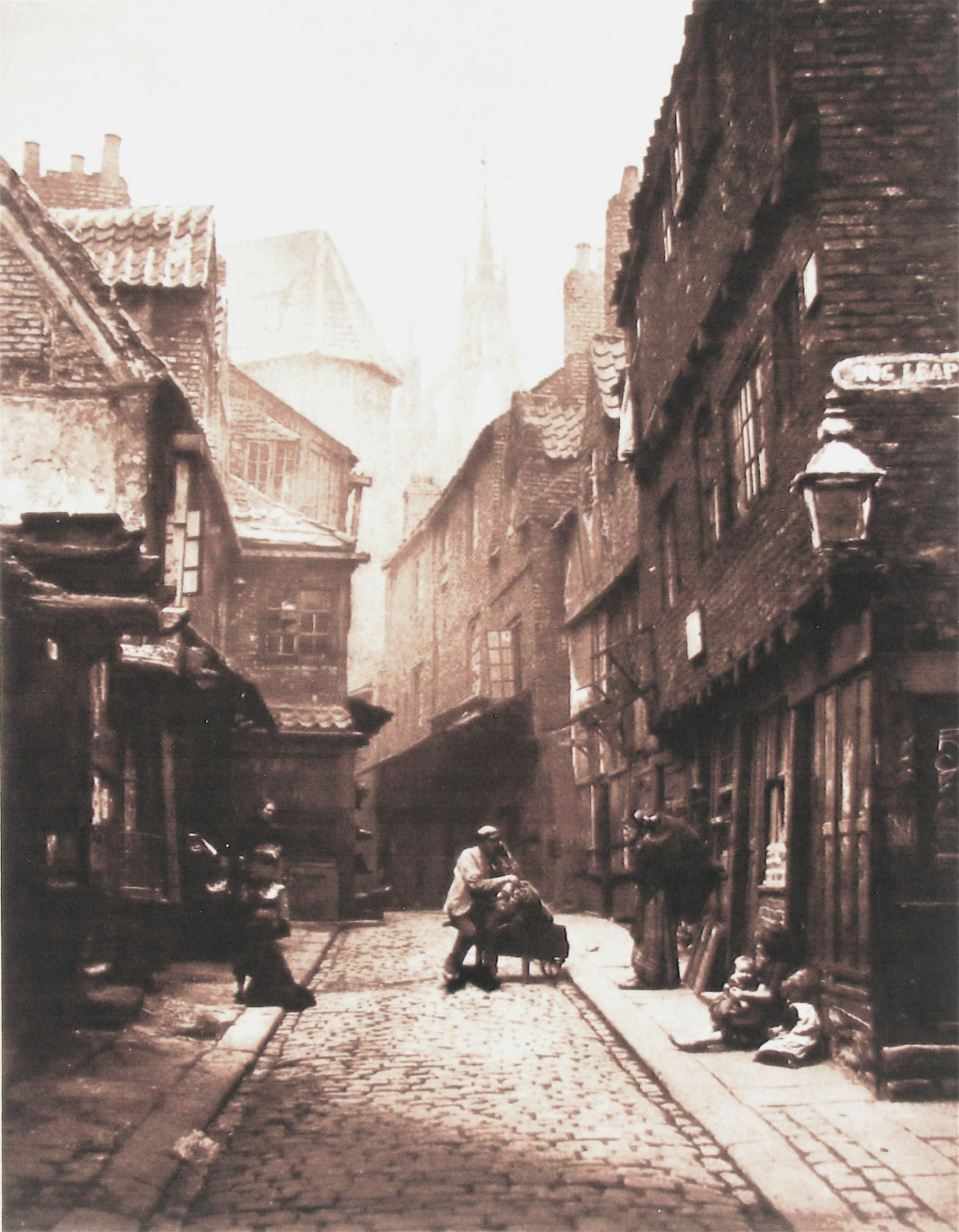 Photo of Castle Garth Newcastle on Tyne UK